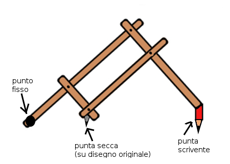 pantograph: device to copy a drawing, making it bigger or smaller